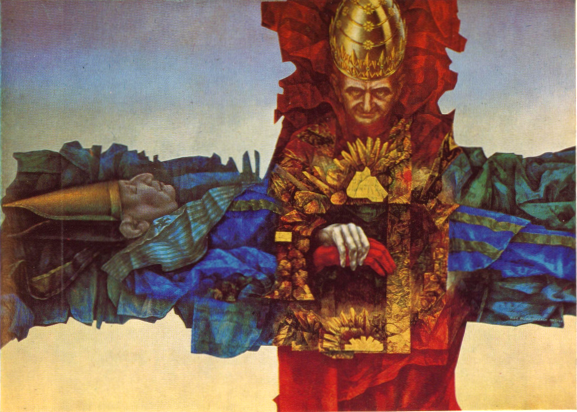 "Die Päpste" shows pope Paul VI holding the hand of dead pope John XXIII by painter Elsa Olivia Urbach.